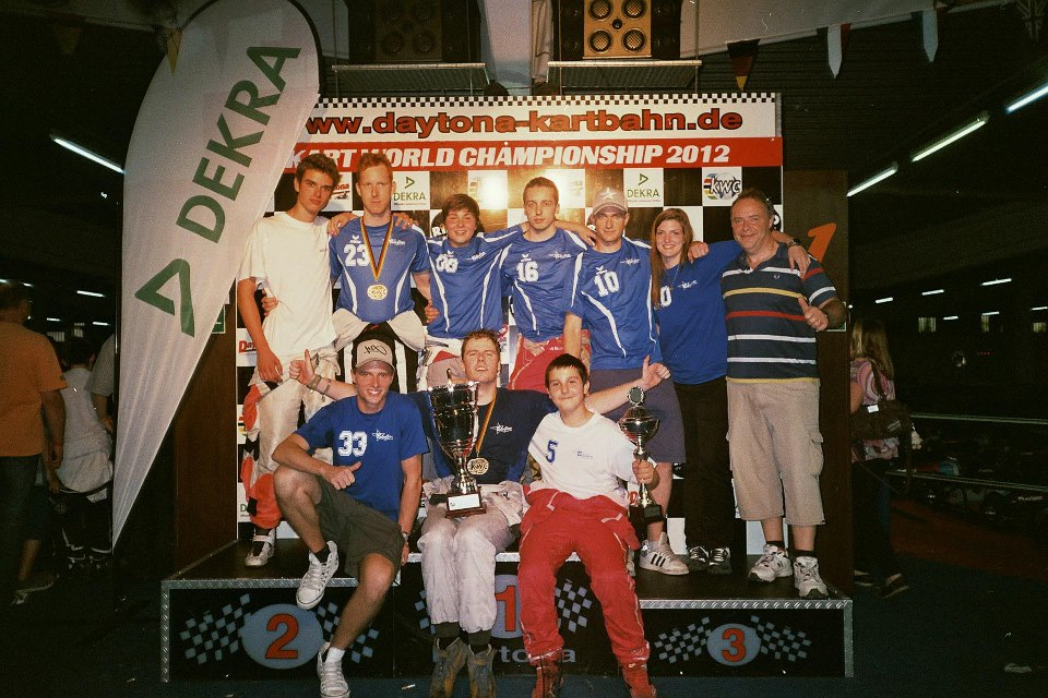 BlueStar world champion